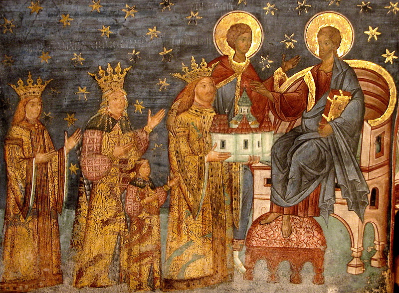 Stefan cel Mare and his wife, Maria of Wallachia, and his sons Alexandru and Bogdan